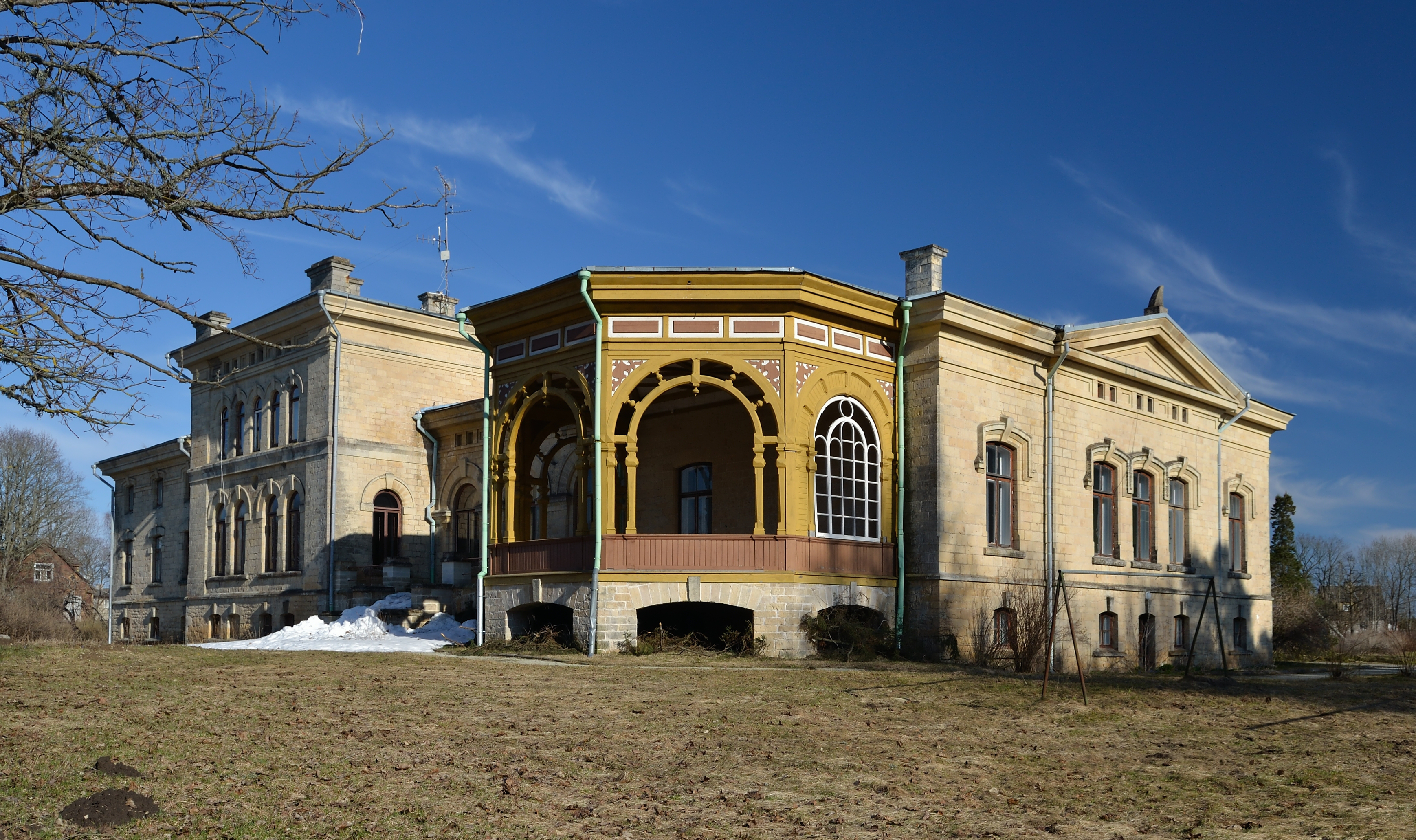 Inju manor main building